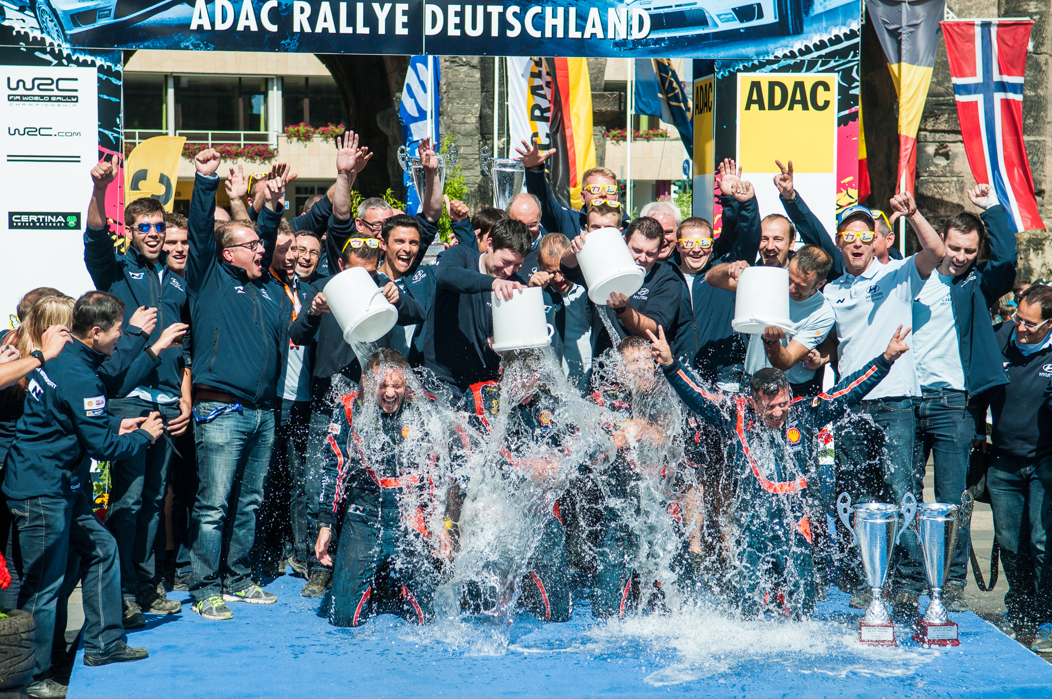 ADAC Rallye Deutschland 2014,Dani Sordo,FIA,FIA World Rally Championship,Hyundai Motorsport,Ice Bucket Challenge,Marc Marti,Motorsport,Nicolas Gilsoul,Rally,Rallye,Siegerehrung,Thierry Neuville,WRC